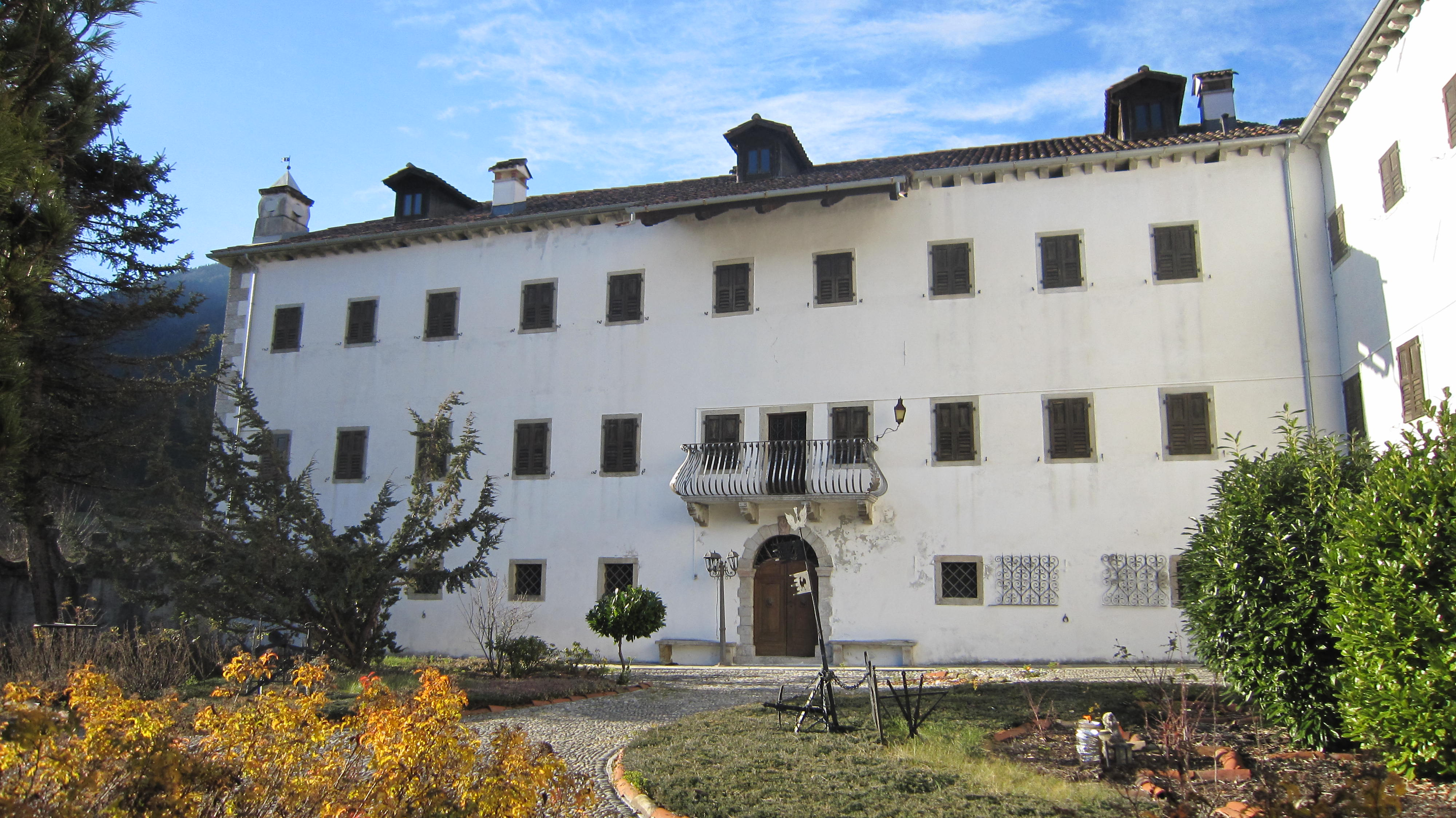 palazzo calice